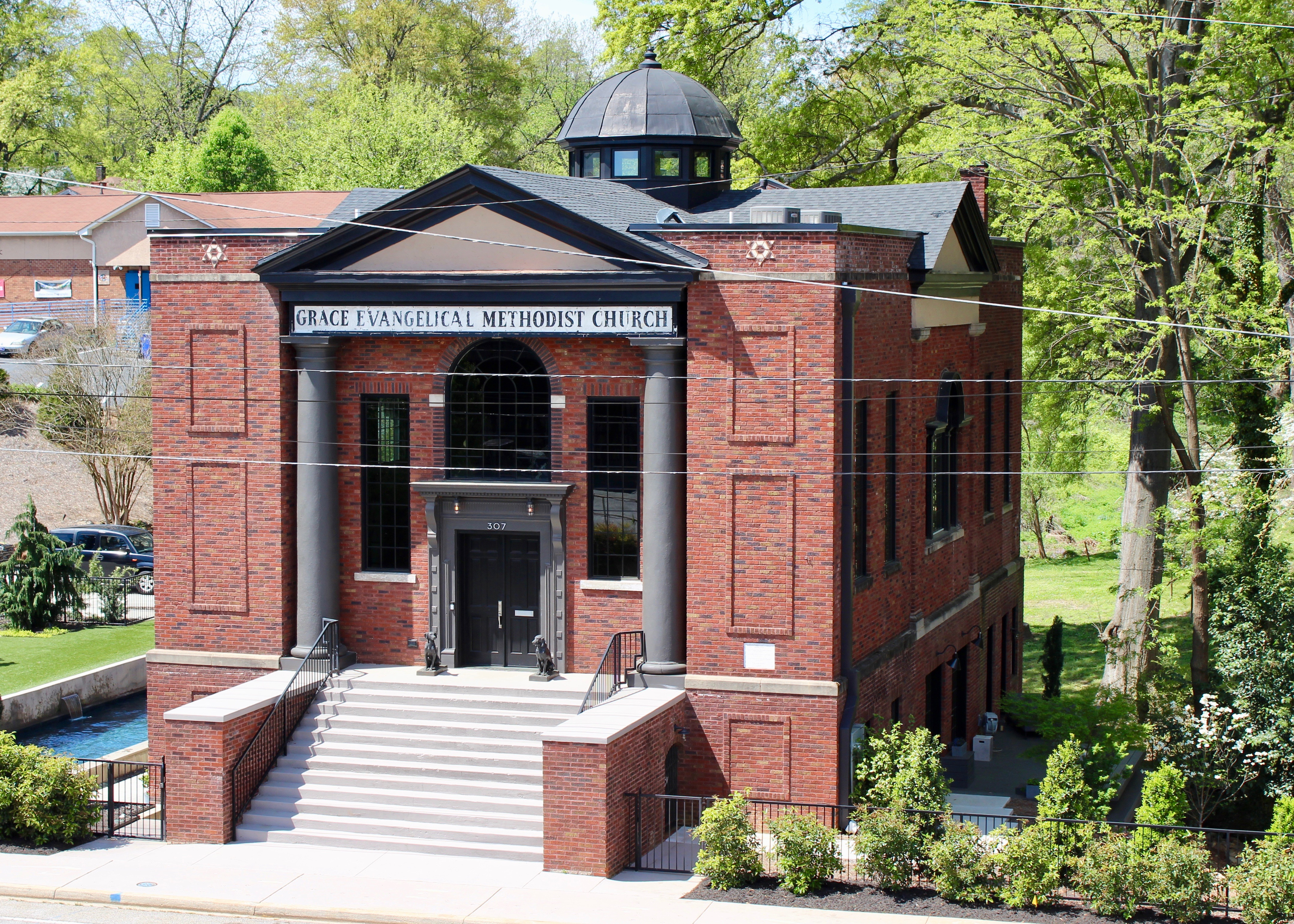 Photo of former Beth Israel Synagogue, in Greenville, South Carolina, USA, repurposed as a private residence.